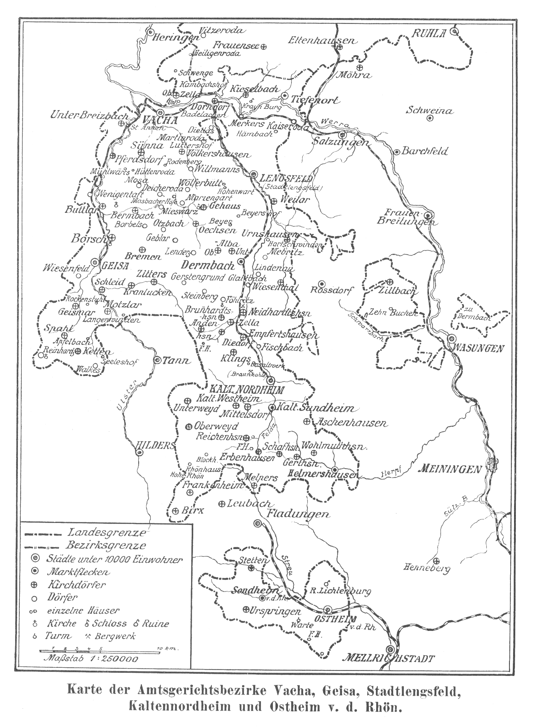 Map of the administration districts of Saxe-Weimar-Eisenach.